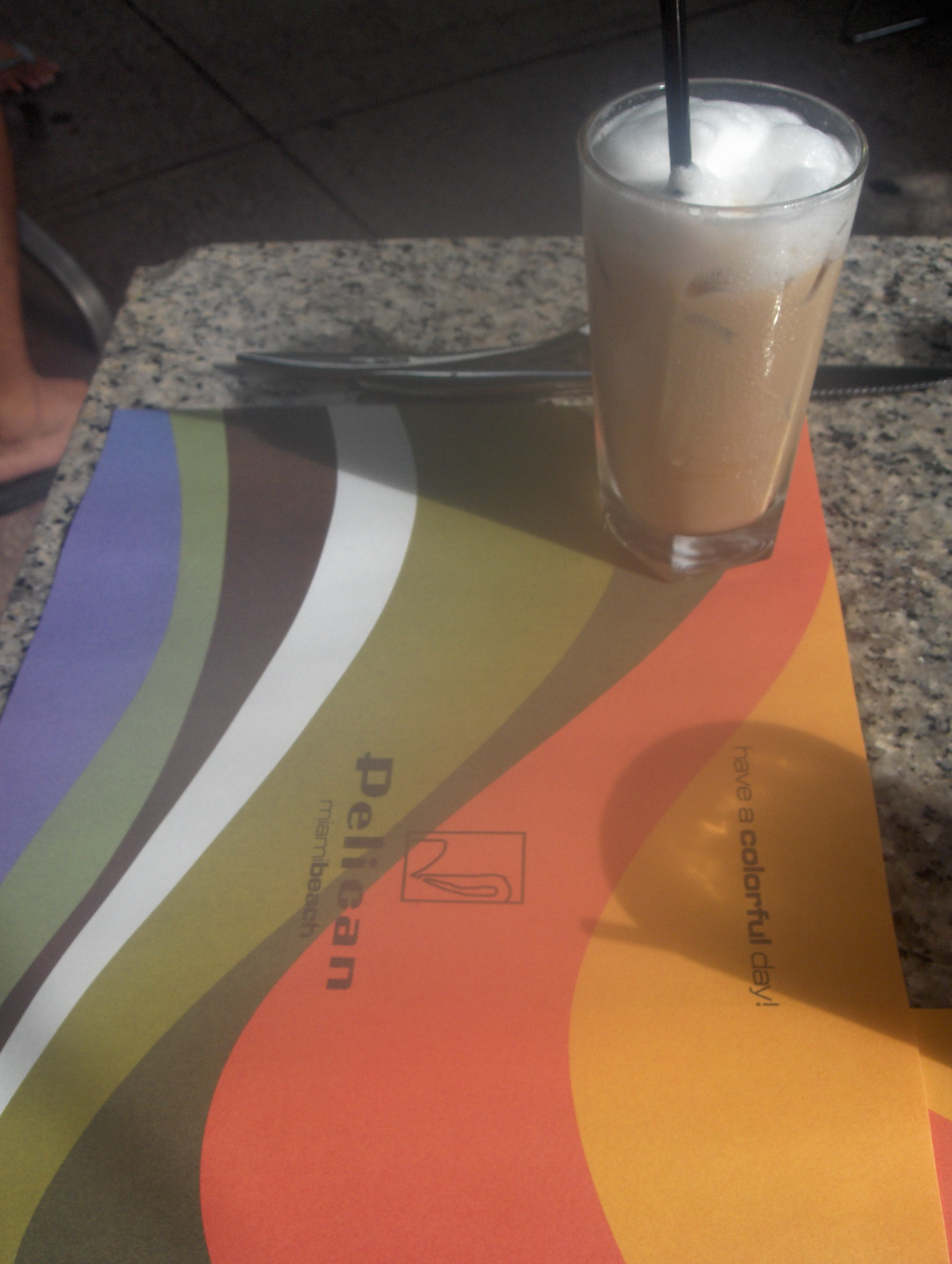 Brunch At The Pelican, Miami Beach, Florida